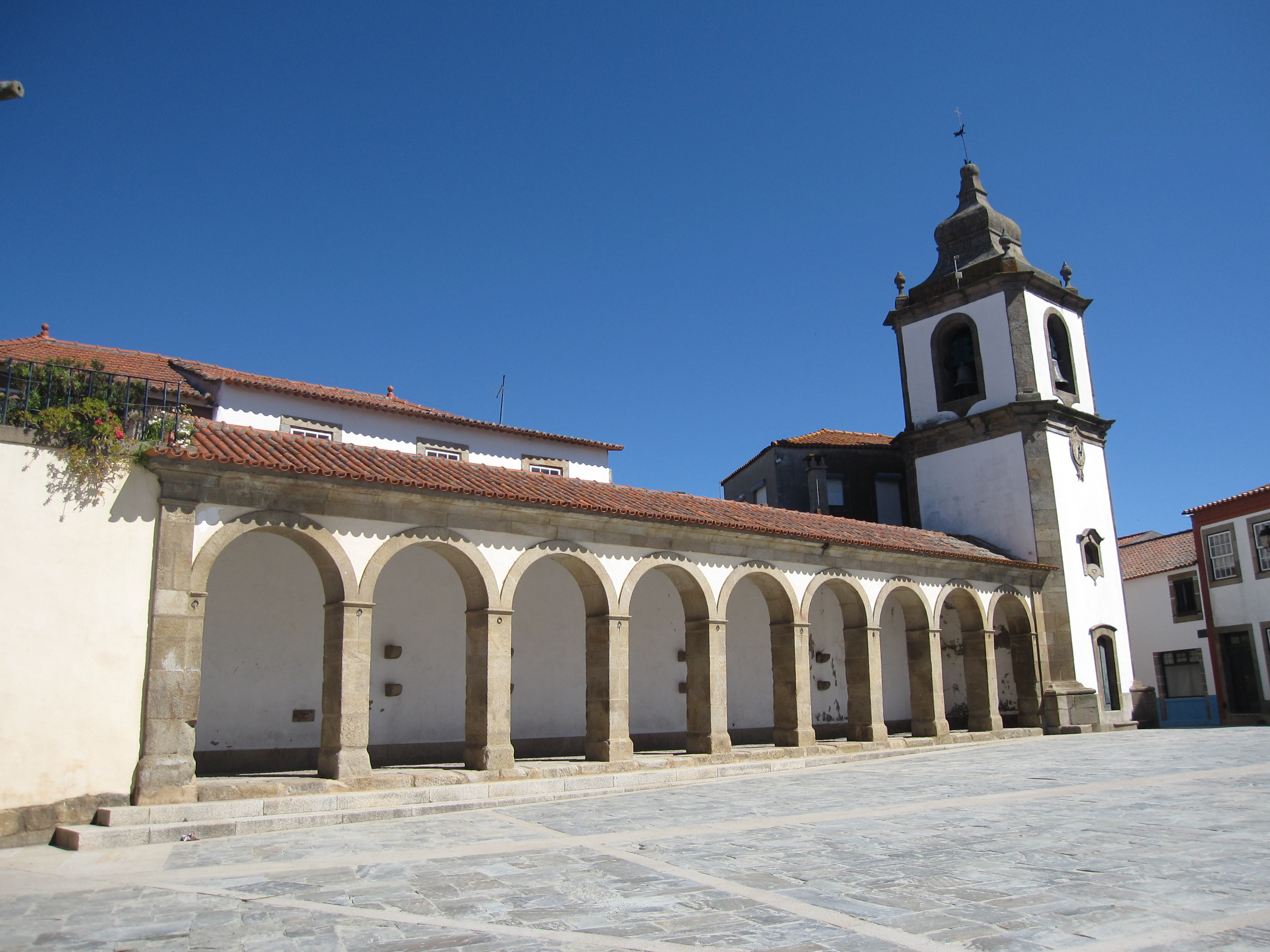 This file was uploaded for Wiki Loves Monuments in Portugal with the unique identifier 97006185.